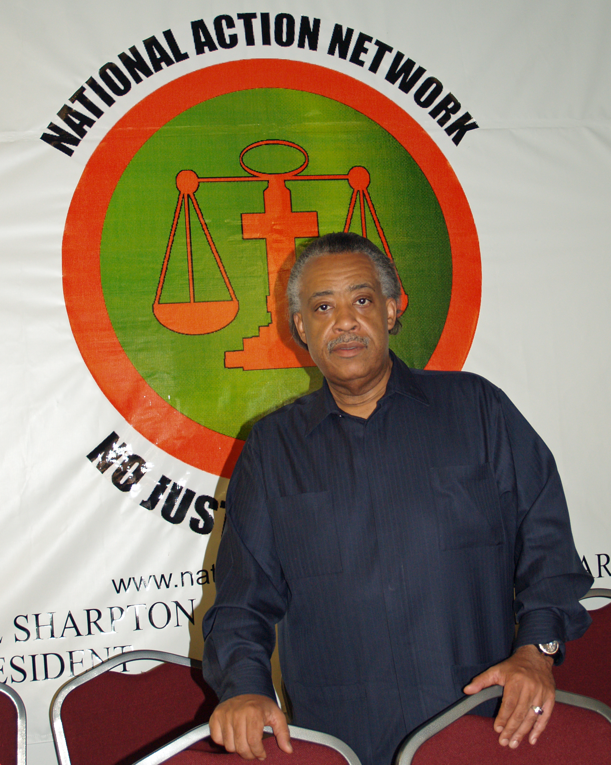 Al Sharpton by David Shankbone